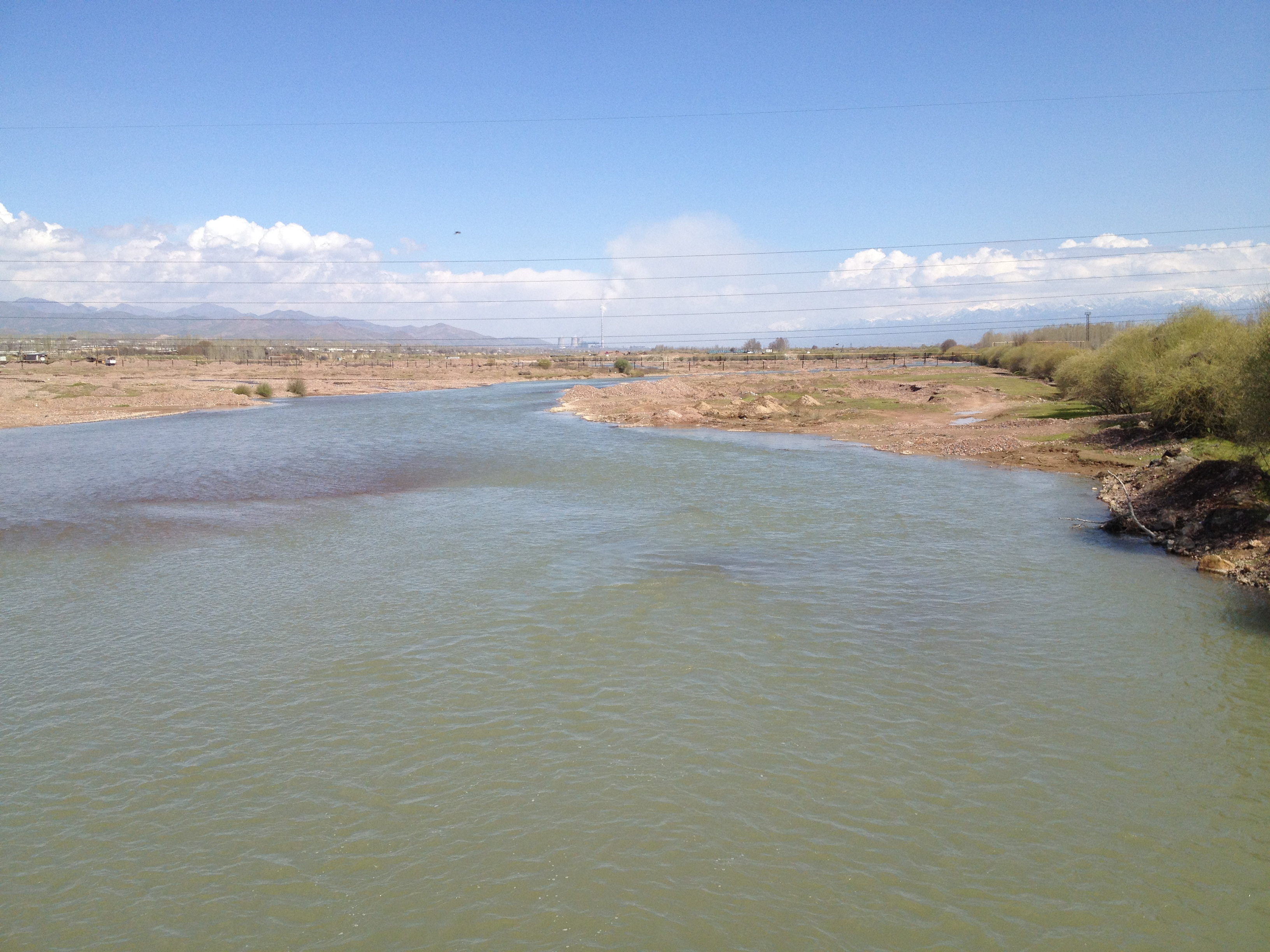 Angren river near Okhangaron city